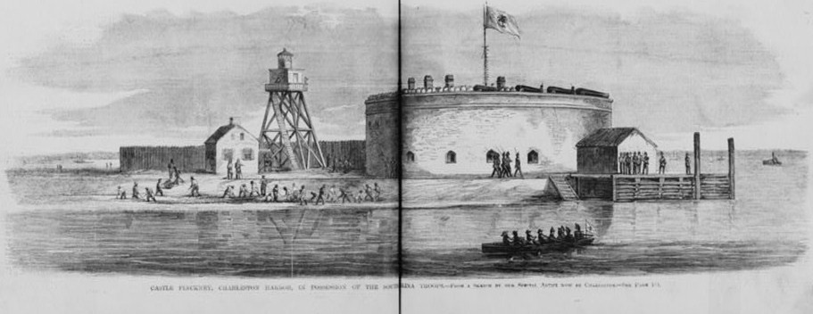 Castle Pinckney - showing early light beacon - cropped from an illustration showing both Castle Pinckney and Fort Sumter This work is in the public domain in its country of origin and other countries and areas where the copyright term is the author's life plus 100 years or fewer. You must also include a United States public domain tag to indicate why this work is in the public domain in the United States. This file has been identified as being free of known restrictions under copyright law, including all related and neighboring rights. This image is available from the United States Library of Congress's Prints and Photographs division under the digital ID cph.3d01908.This tag does not indicate the copyright status of the attached work. A normal copyright tag is still required. See Commons:Licensing for more information.